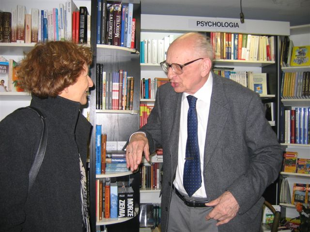 Władysław Bartoszewski (Warsaw, 19.02.1922, - Warsaw, 24.4.2015), Polish historian, publicist, writer and diplomat and Ewa Kuryluk (b. 1946), Polish painter-performer, writer and essayist